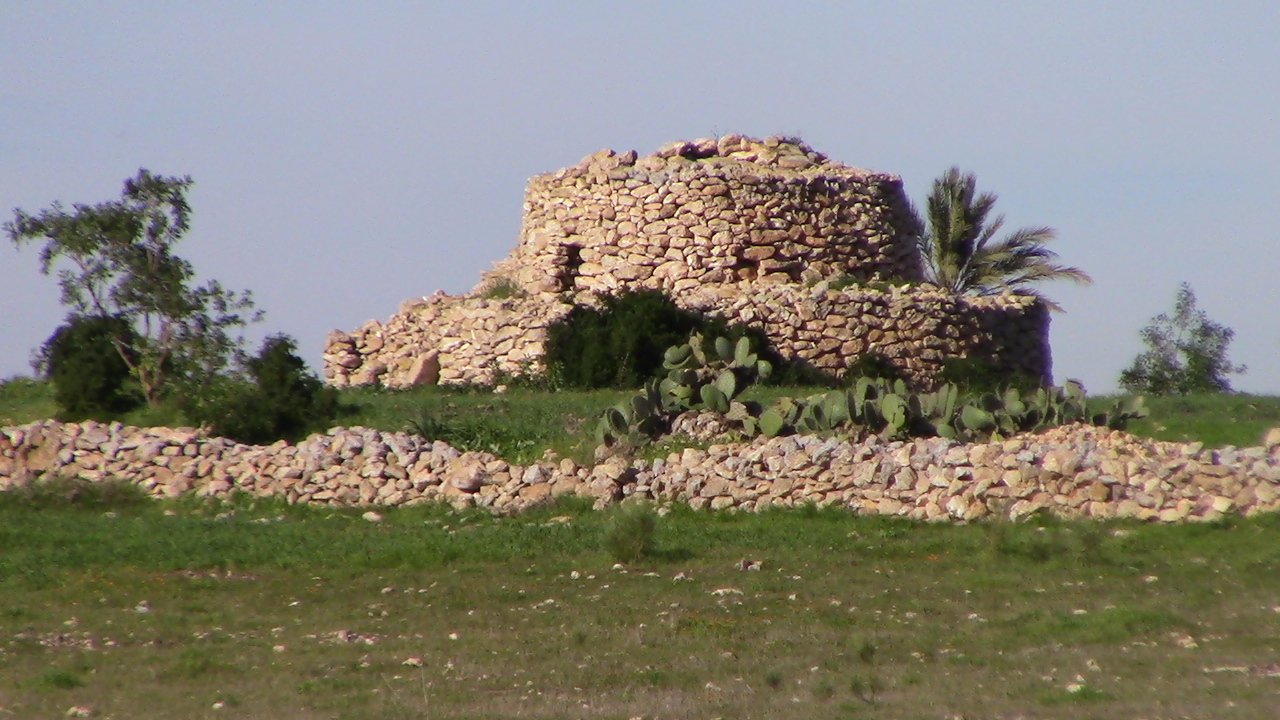 A Tazota, Municipality of Sidi Abed, Province of el-Jadida, Morocco